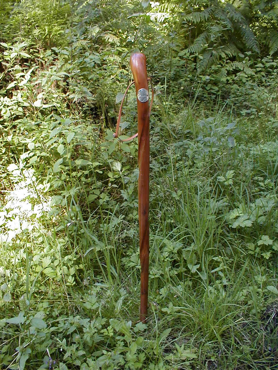 "Ziegenhainer", traditional walking stick from Jena/Germany, purchased by its owner in Jena in the early 1990s